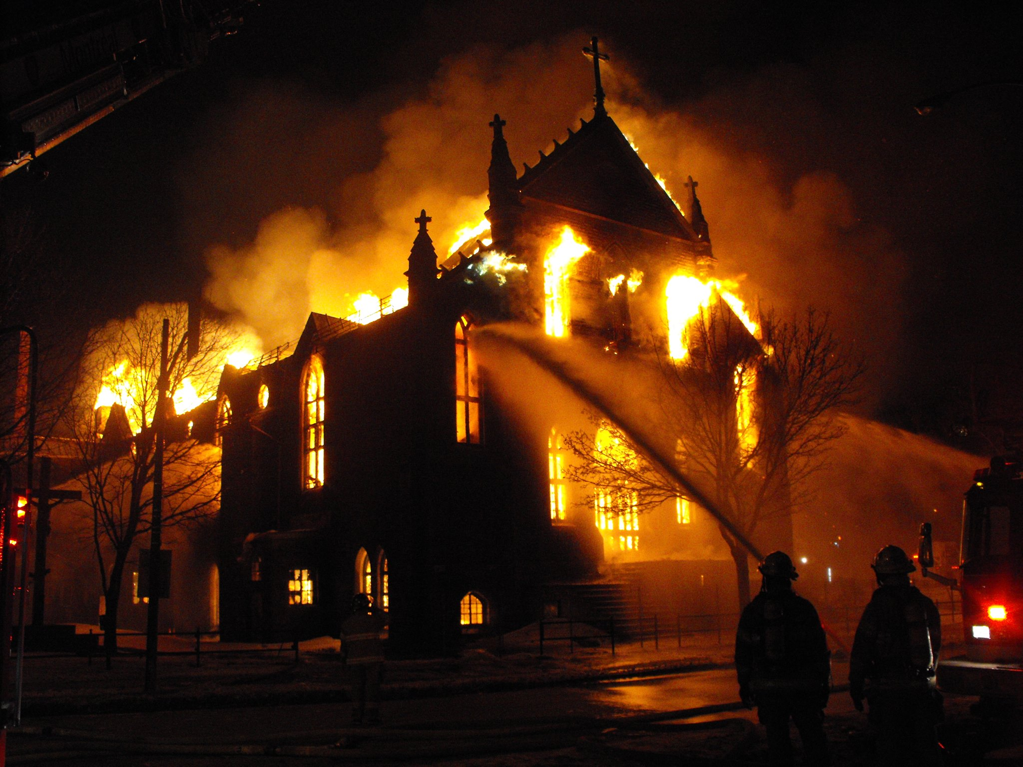 Montreal firefighters battling a blaze in a church.